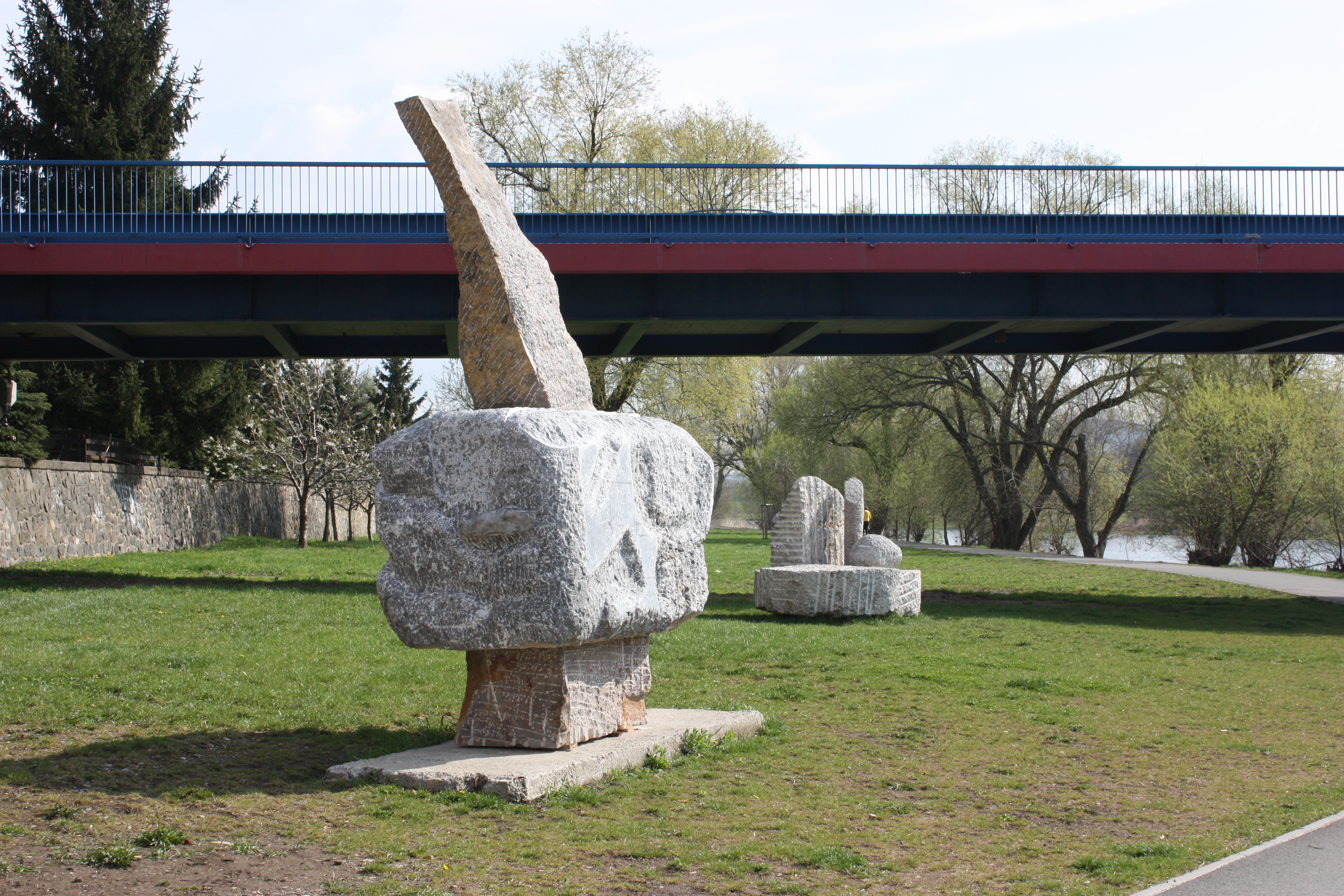 Statue by Ivan Jilemnicky (2011) in Dobřichovice, Central Bohemia.